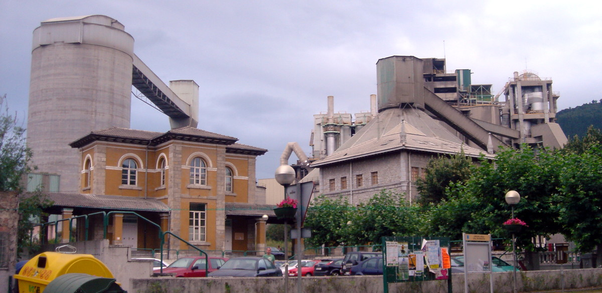 Town hall and library of Lemoa (Biscay, Basque Country, Spain)